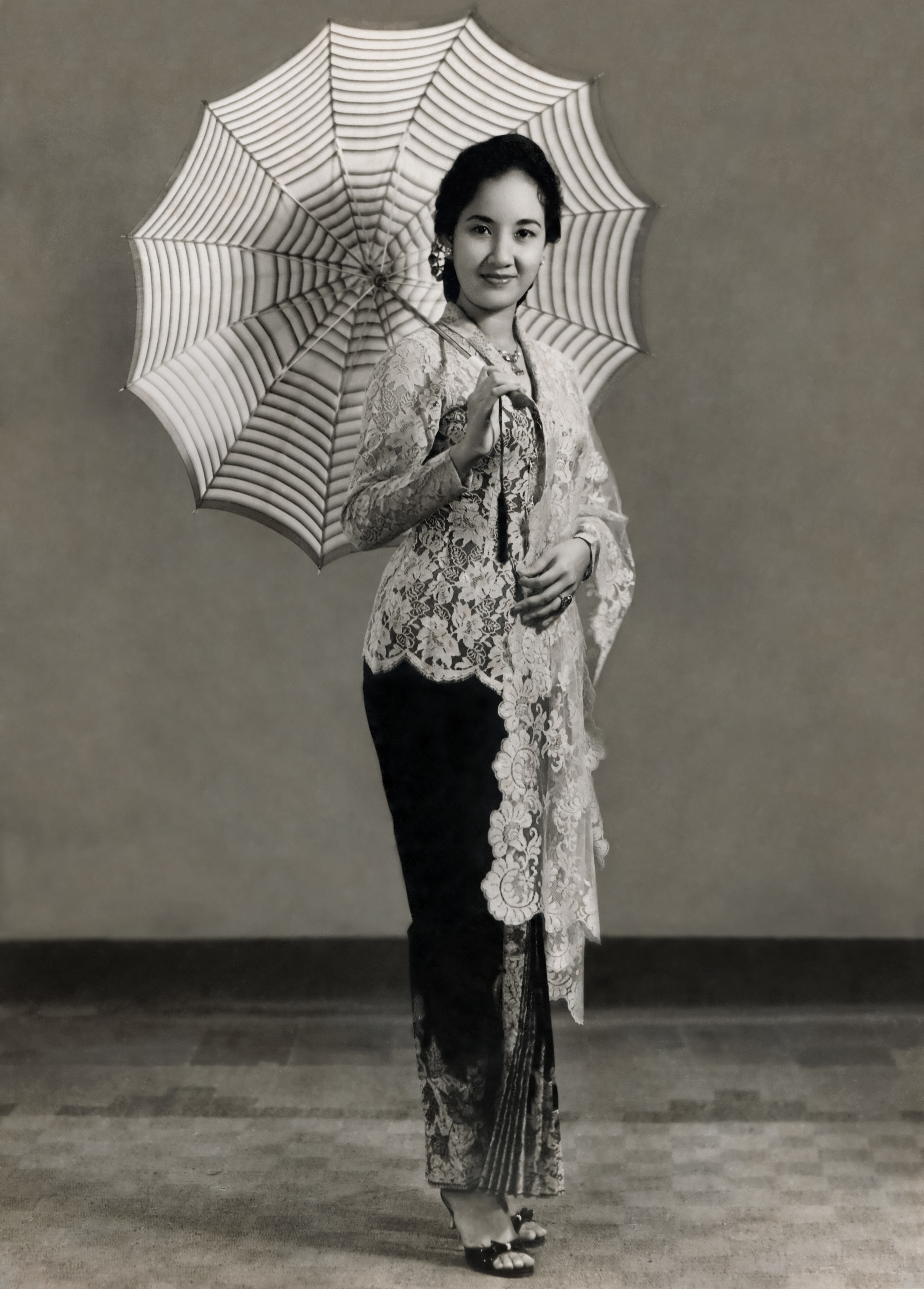 Chitra Dewi, c. 1960, by Tati Studio. Restored from File:Chitra Dewi, c. 1960, by Tati Studio - Before restoration.jpg